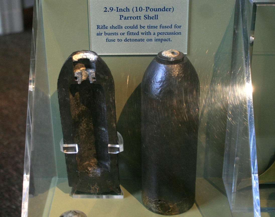 2,9 Inch (10-Pounder) Parrot shell